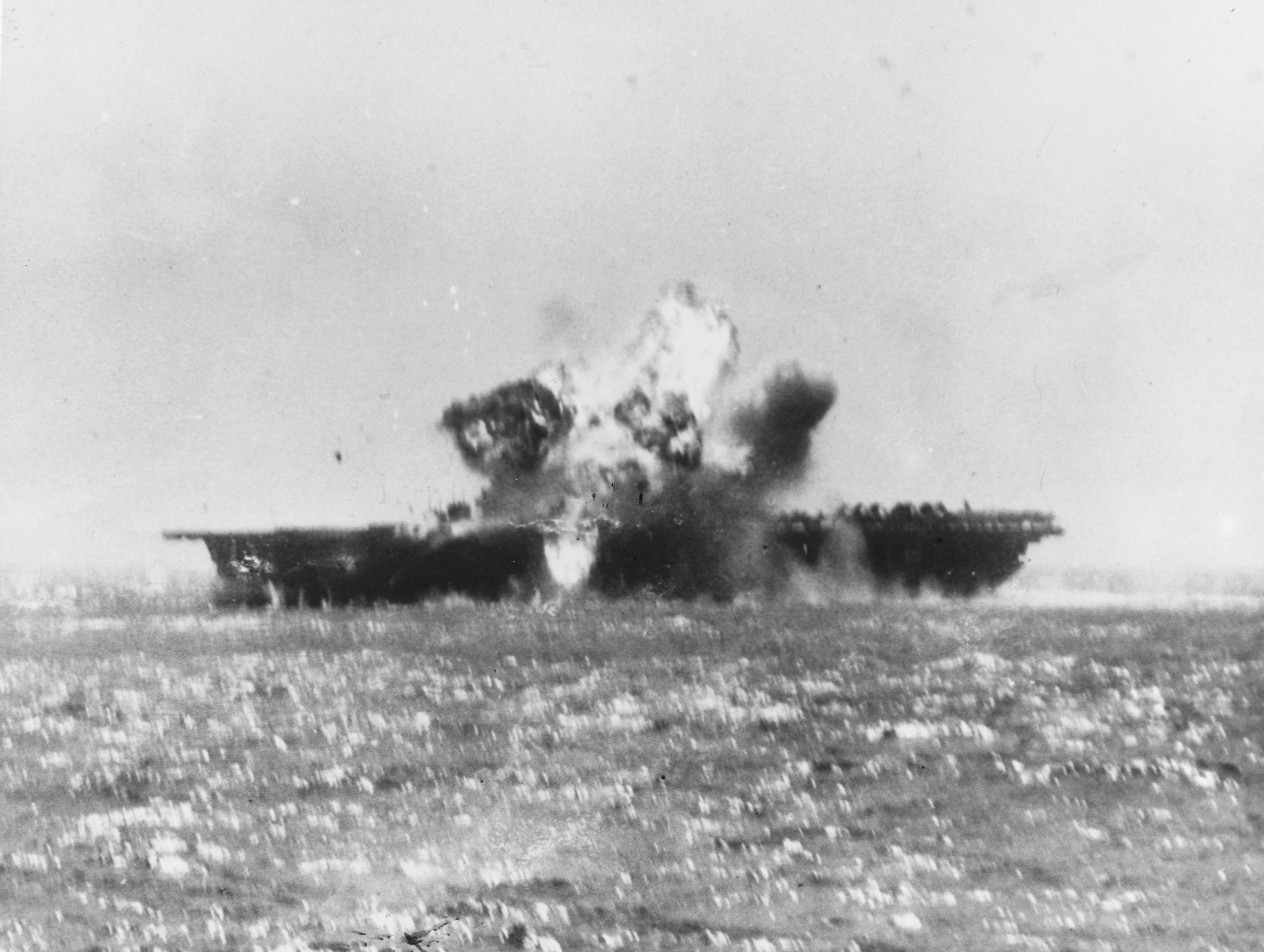 The U.S. Navy aircraft carrier USS Essex (CV-9) is hit on the flight deck amidships by a Japanese Kamikaze, during operations off the Philippines, 25 November 1944.